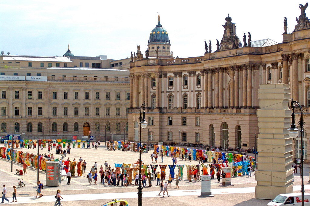 United Buddy Bears at Bebelplatz, Berlin-Mitte